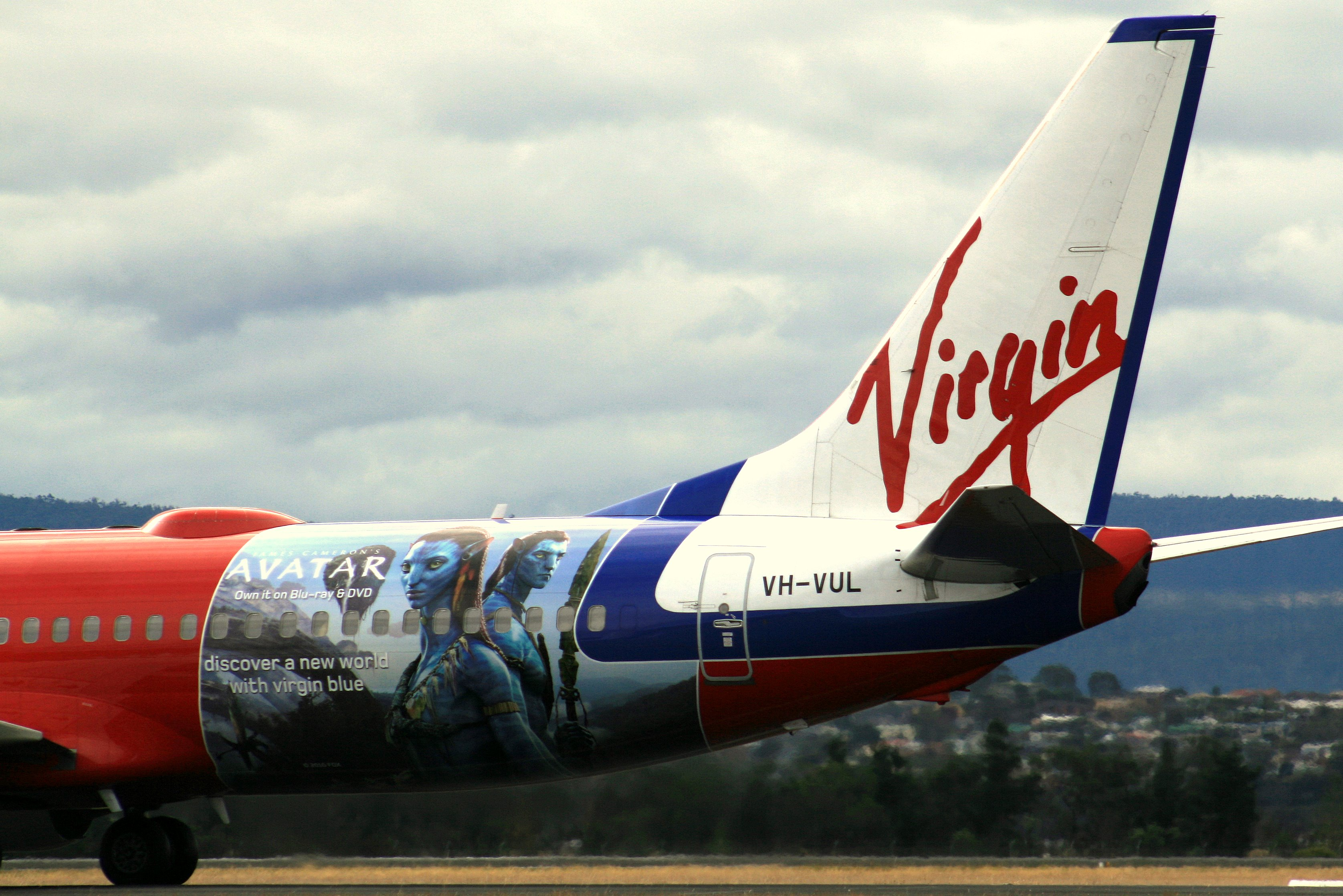 A Virgin Blue Boeing 737-800 was decorated with special decals to promote the Australian DVD release of the film "Avatar" in April 2010. Digital image of the rear fuselage of VH-VUL taken by YSSYguy on 12 May 2010 and uploaded for use in the Virgin Blue article. Image edited using Picasa software.